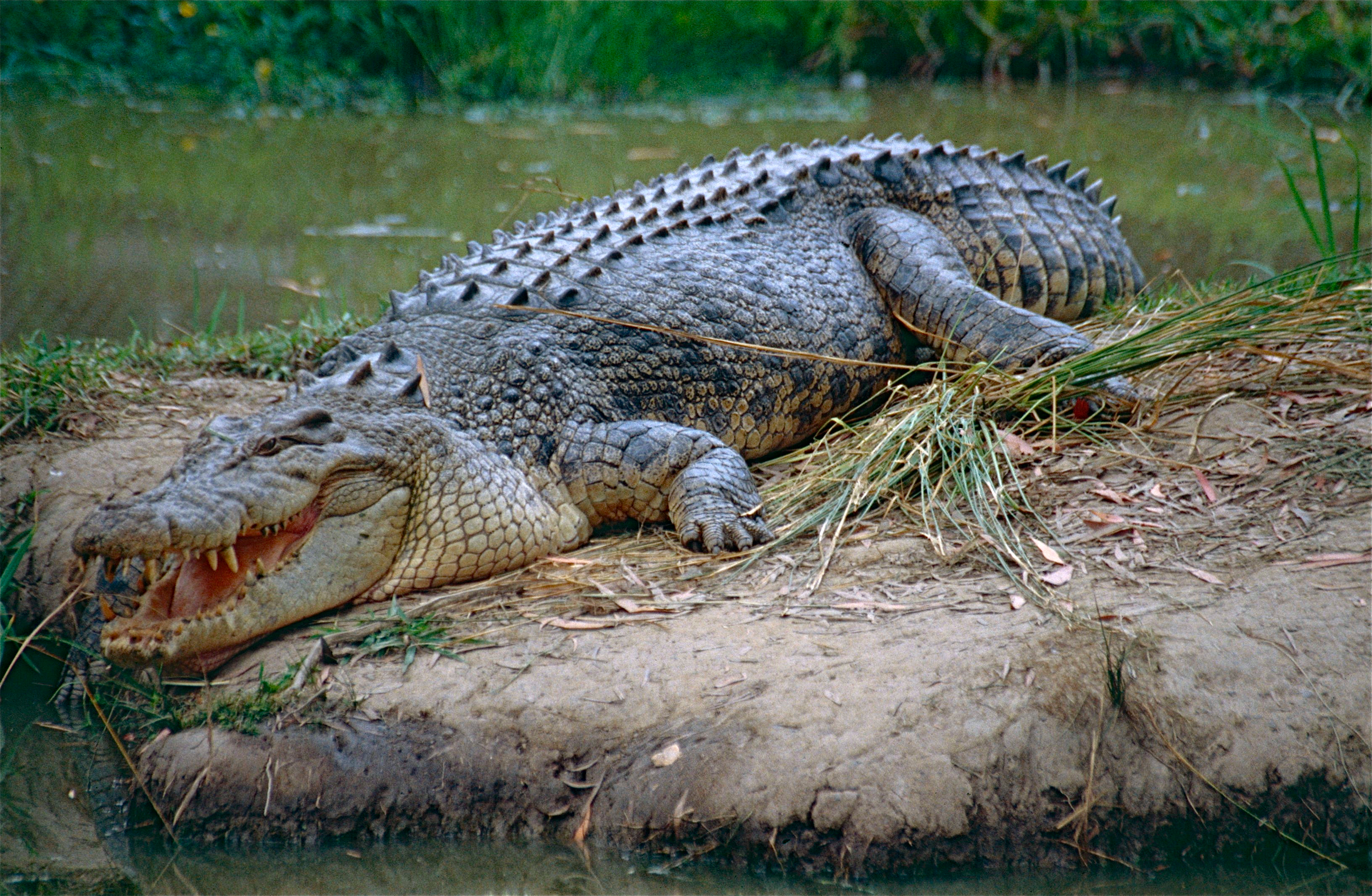 Australia Zoo, Beerwah, South Queensland, AUSTRALIA Scanned Slide from Dec 2000